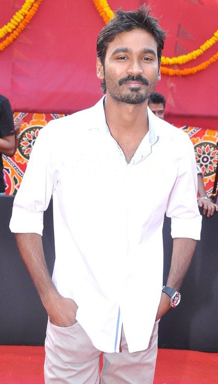 Dhanush at the launch of 'Raanjhanaa'